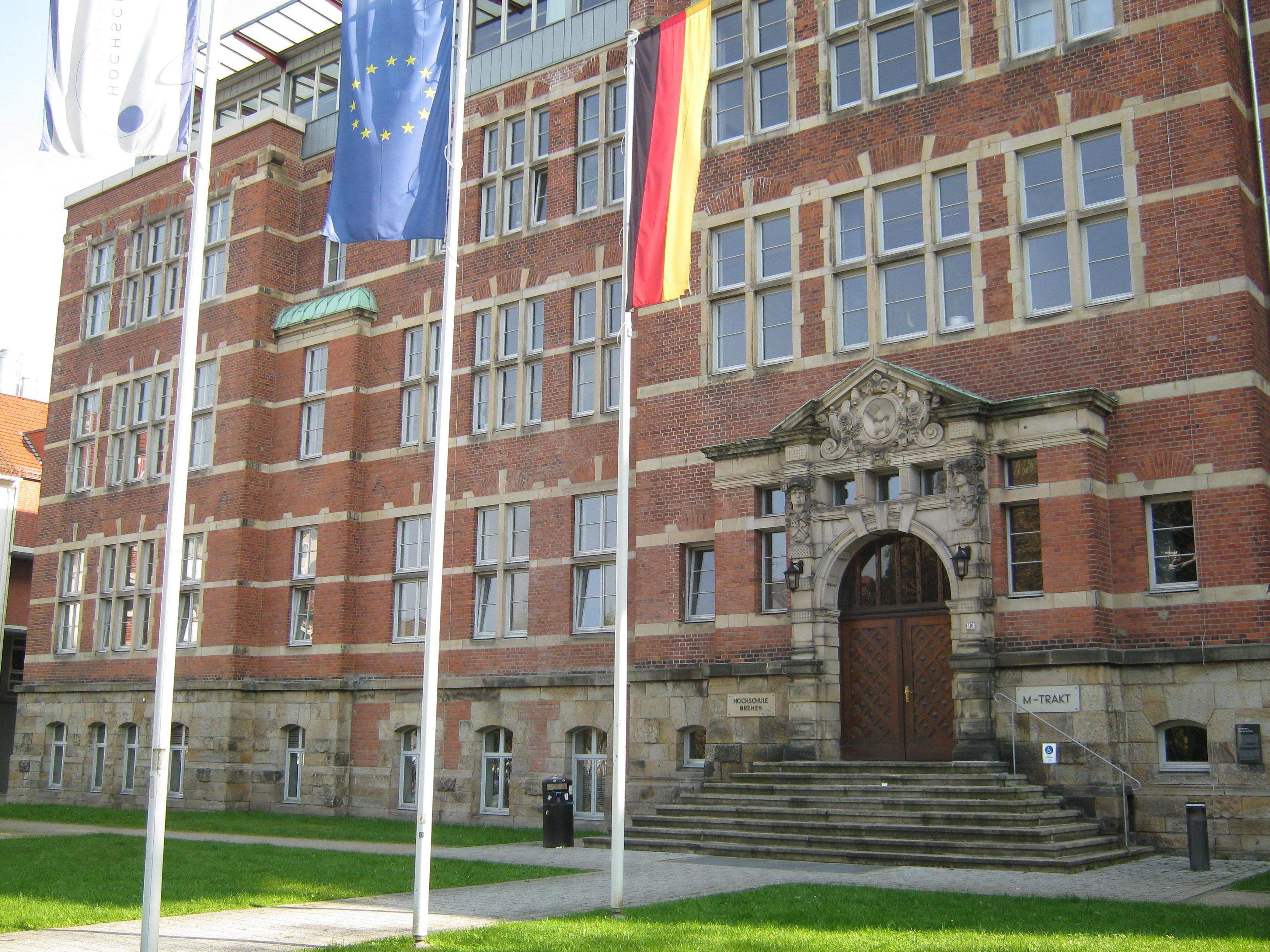 Hochschule Bremen - Facilities at the Neustadtswall - Bremen, Germany.